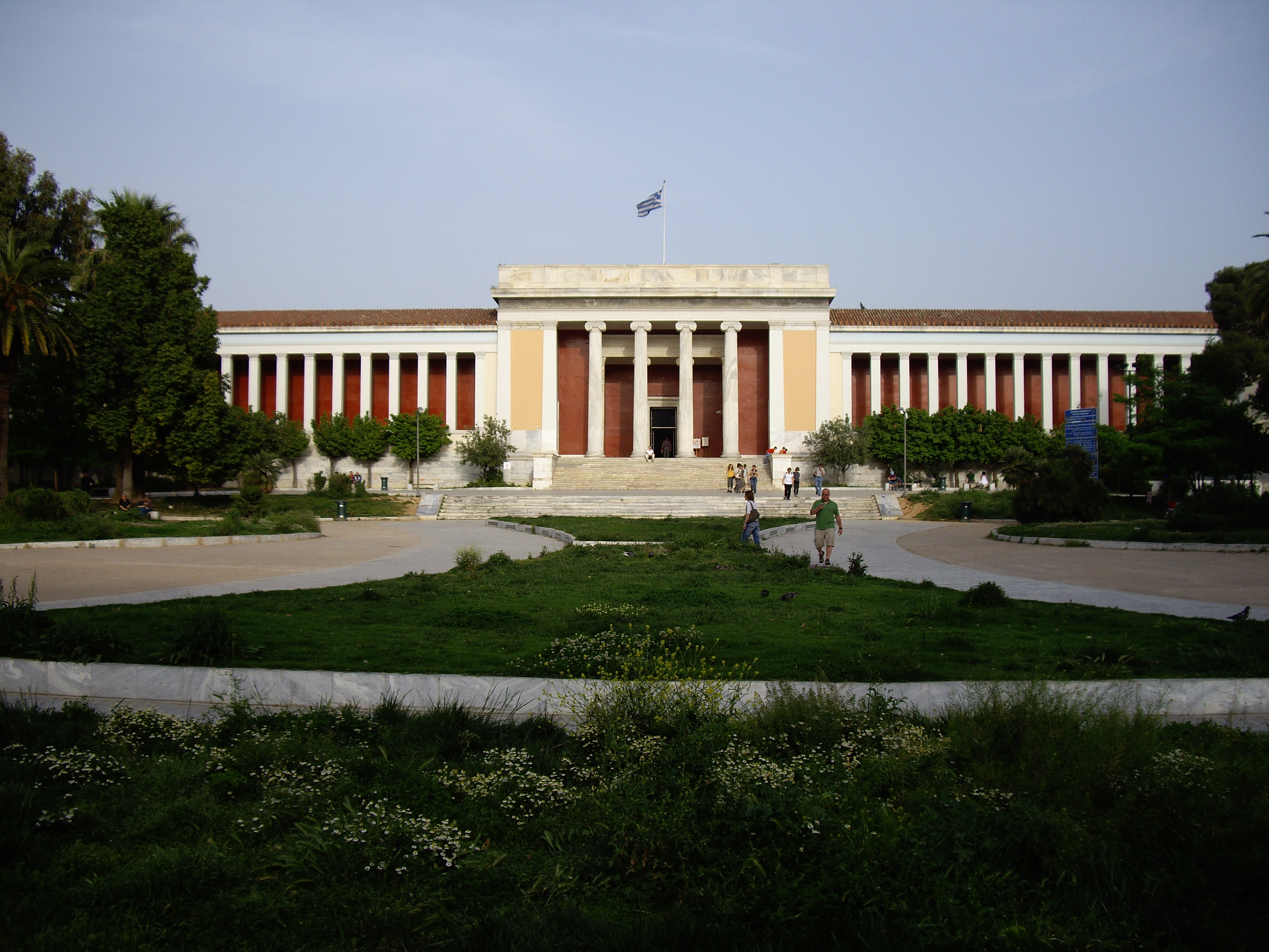 The National Archaeological Museum, Athens